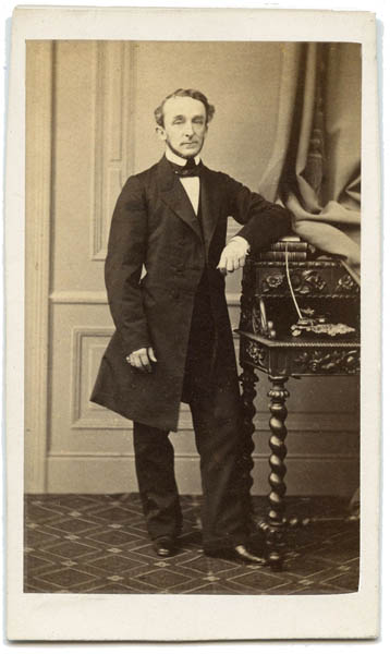 Gustav Godeffroy (8 January 1817 – 7 August 1893), a businessman and senator from Hamburg, Germany.